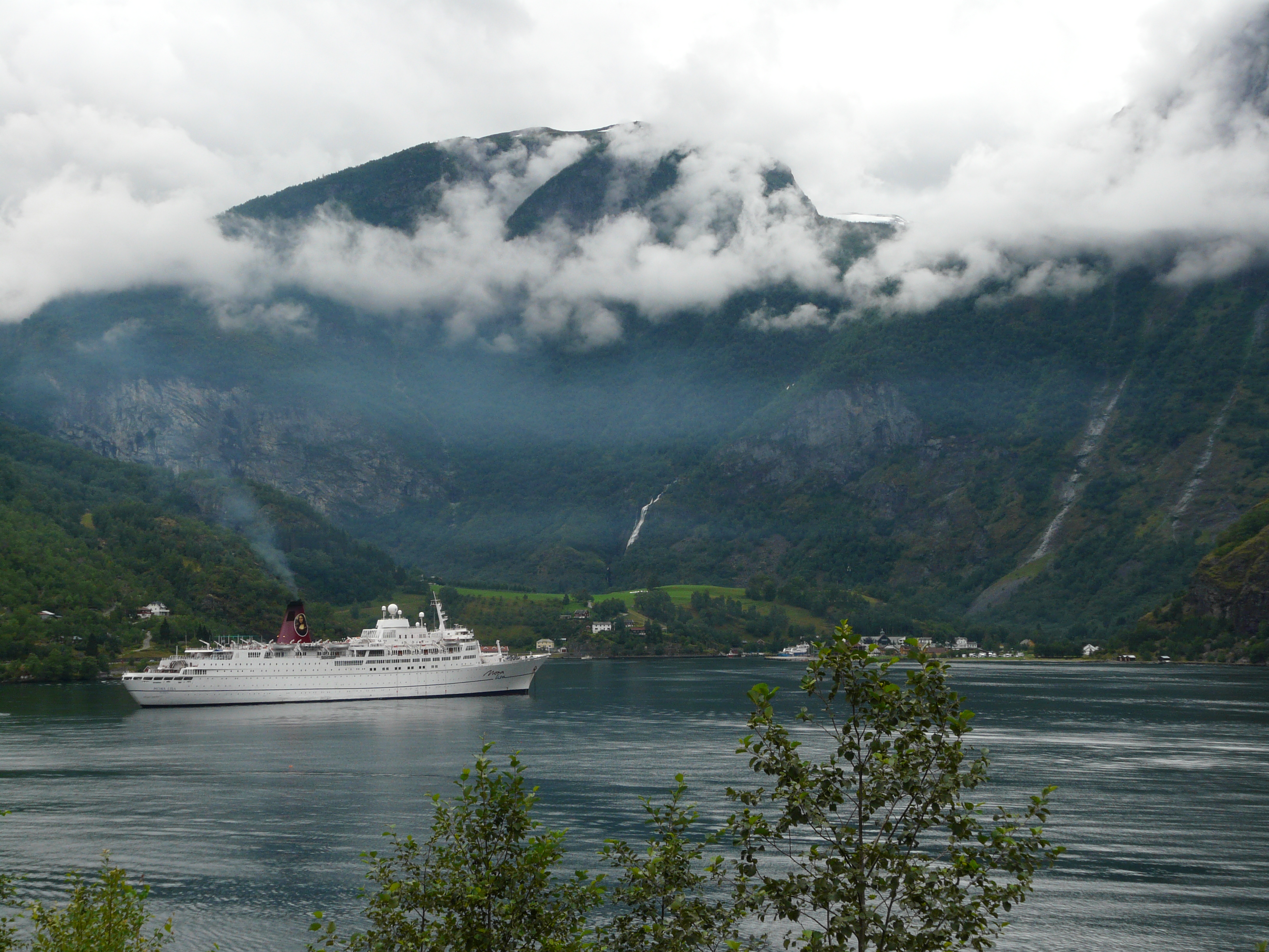 Flåm